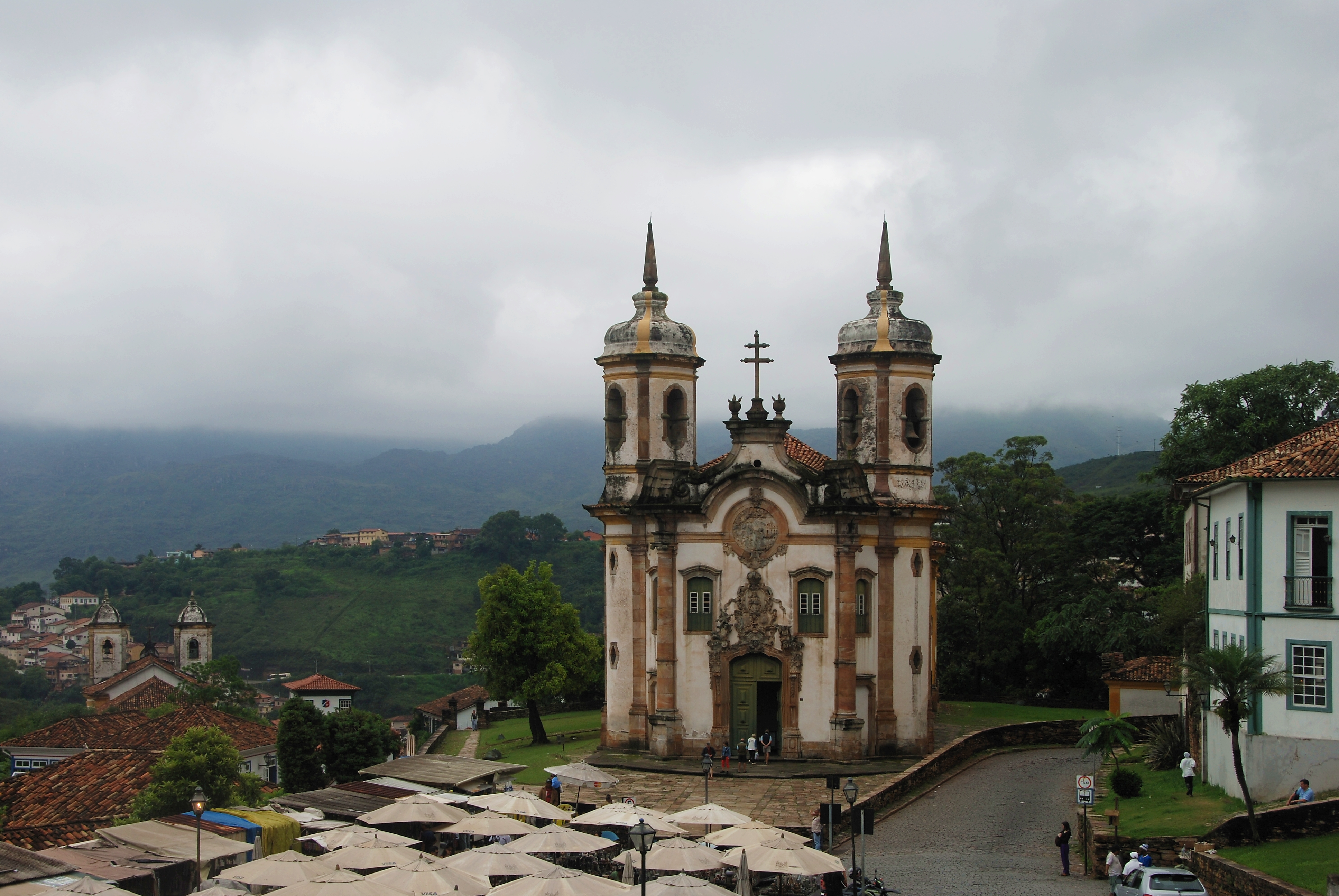 The church of São Francisco de Assis, Ouro Preto, Brazil.